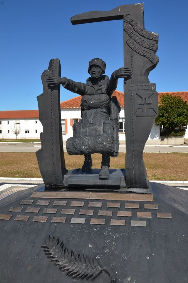 Portuguese Fallen Paratroopers' Memorial, in S. Jacinto, Aveiro (Portugal)